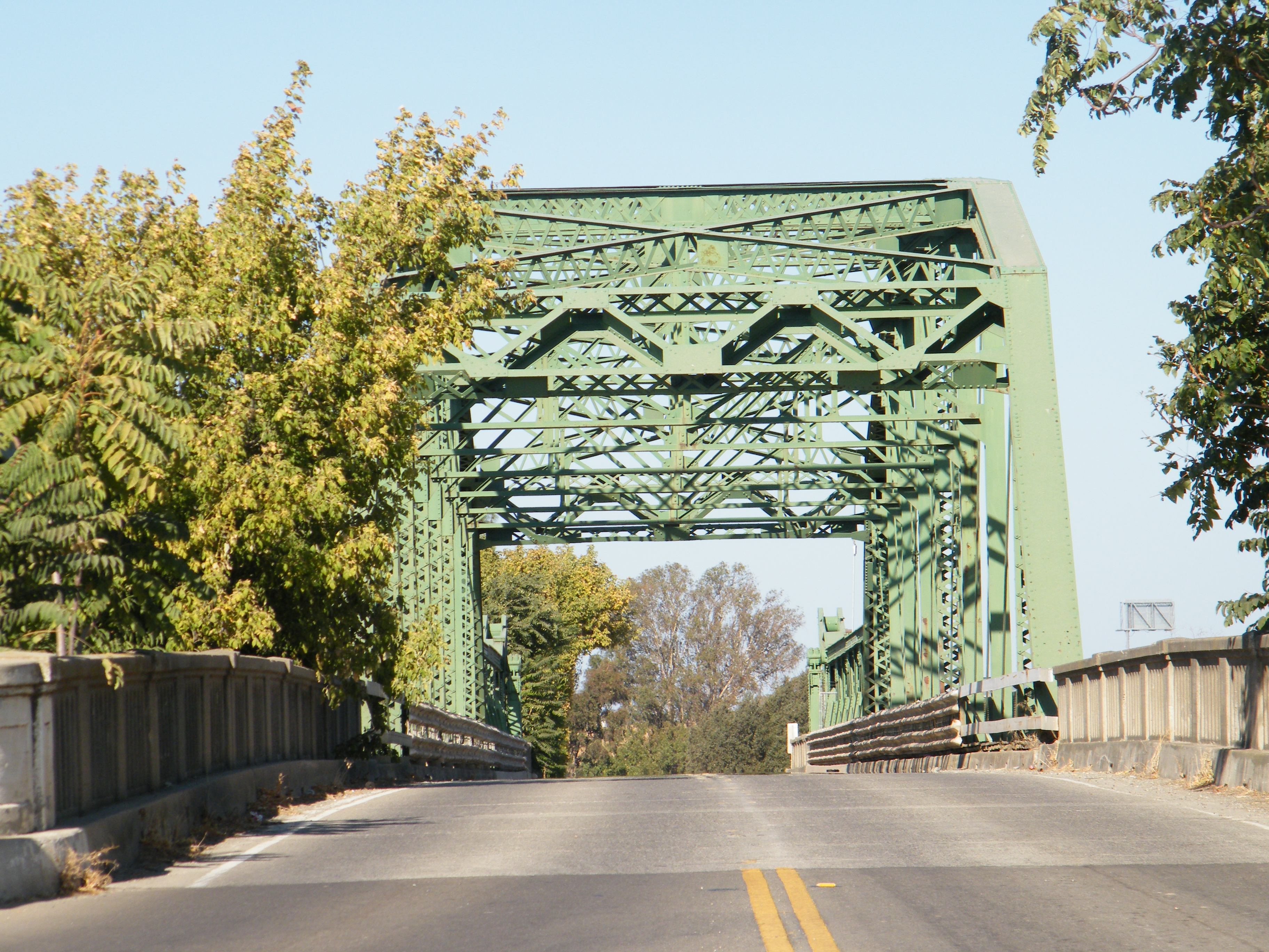 The Manthey Road Bridge, a 1926 truss bridge with bascule lift span, carries Manthey Road over the San Joaquin River in Lathrop, California. It is also known (ambiguously) as the San Joaquin River Bridge